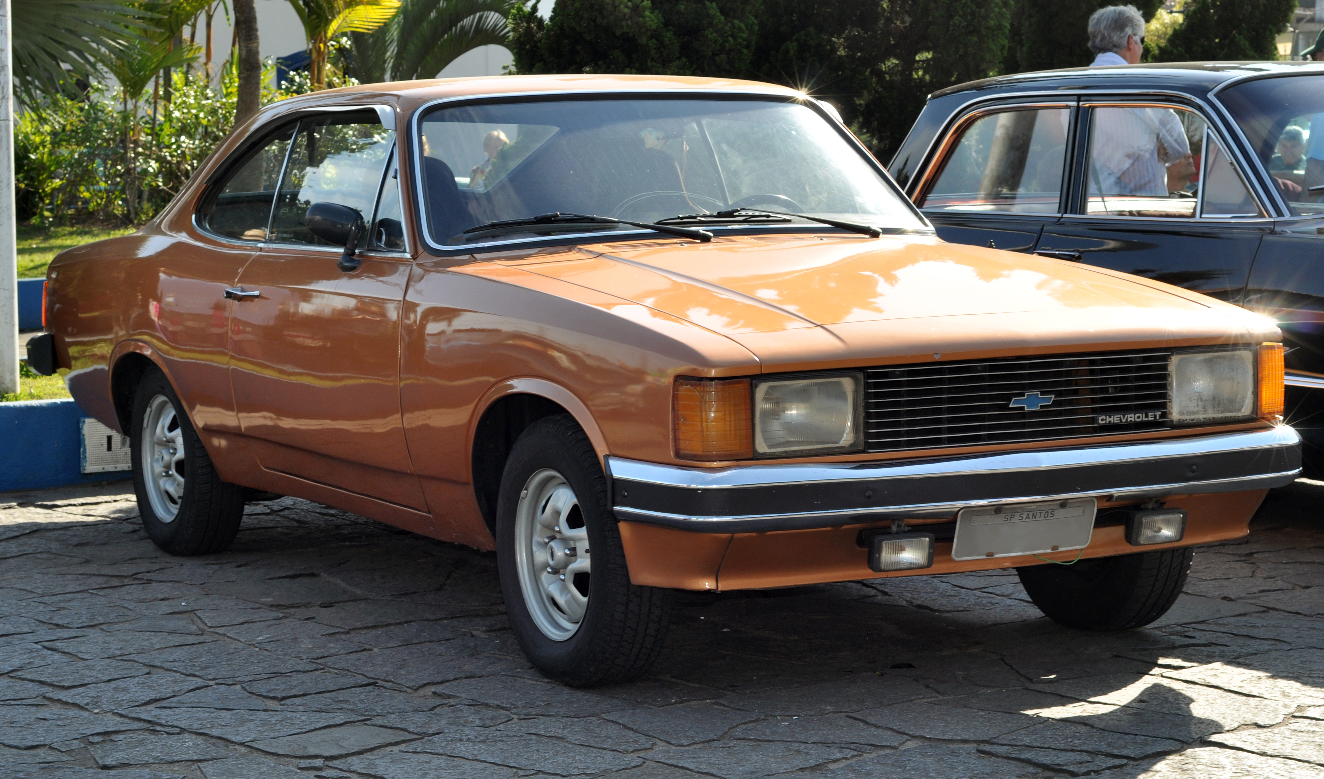 Chevrolet Opala coupé (facelift) at the Exposição carros antigos Itanhaém